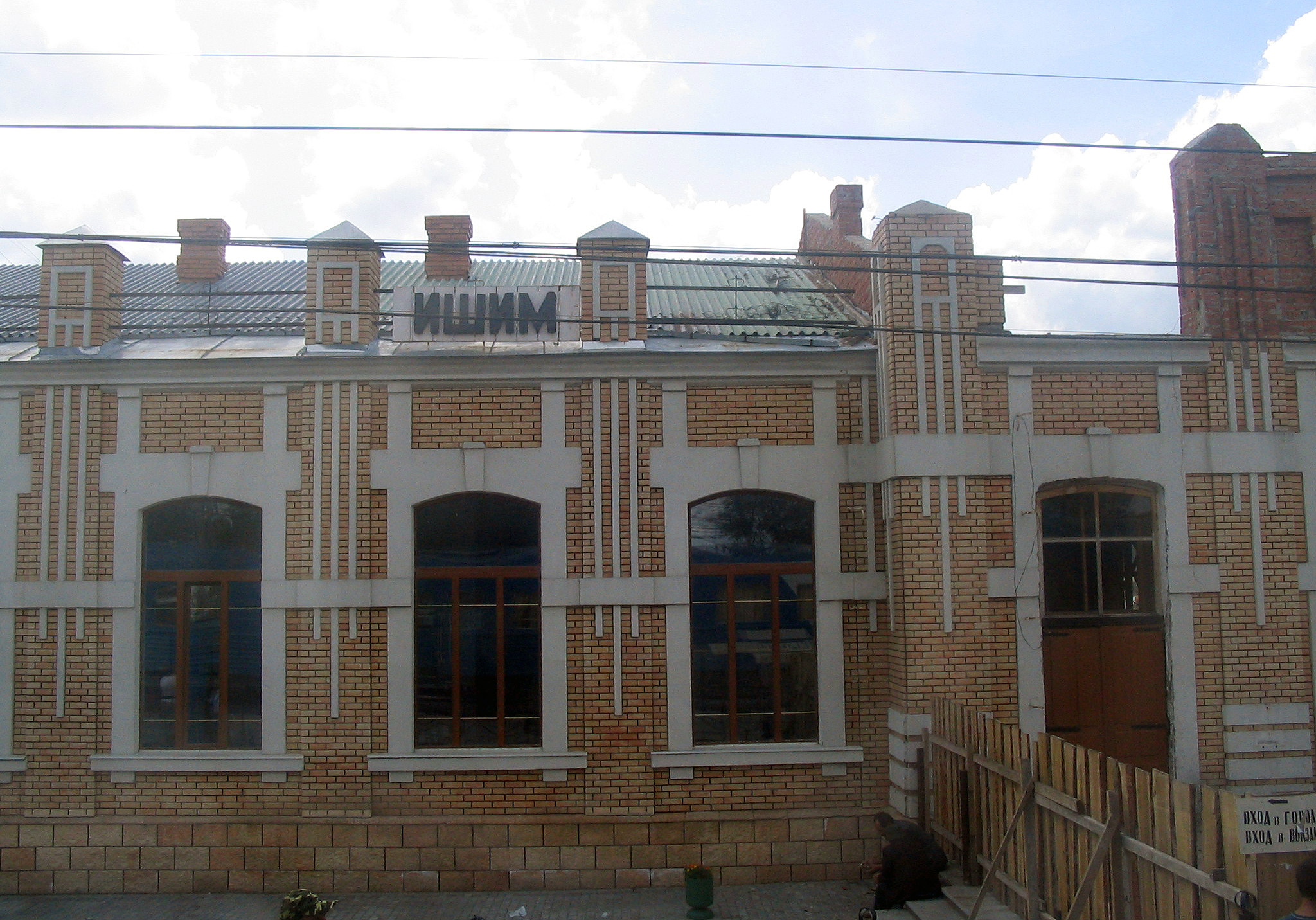 Train station at Ishim (Tyumen Oblast, Russia).